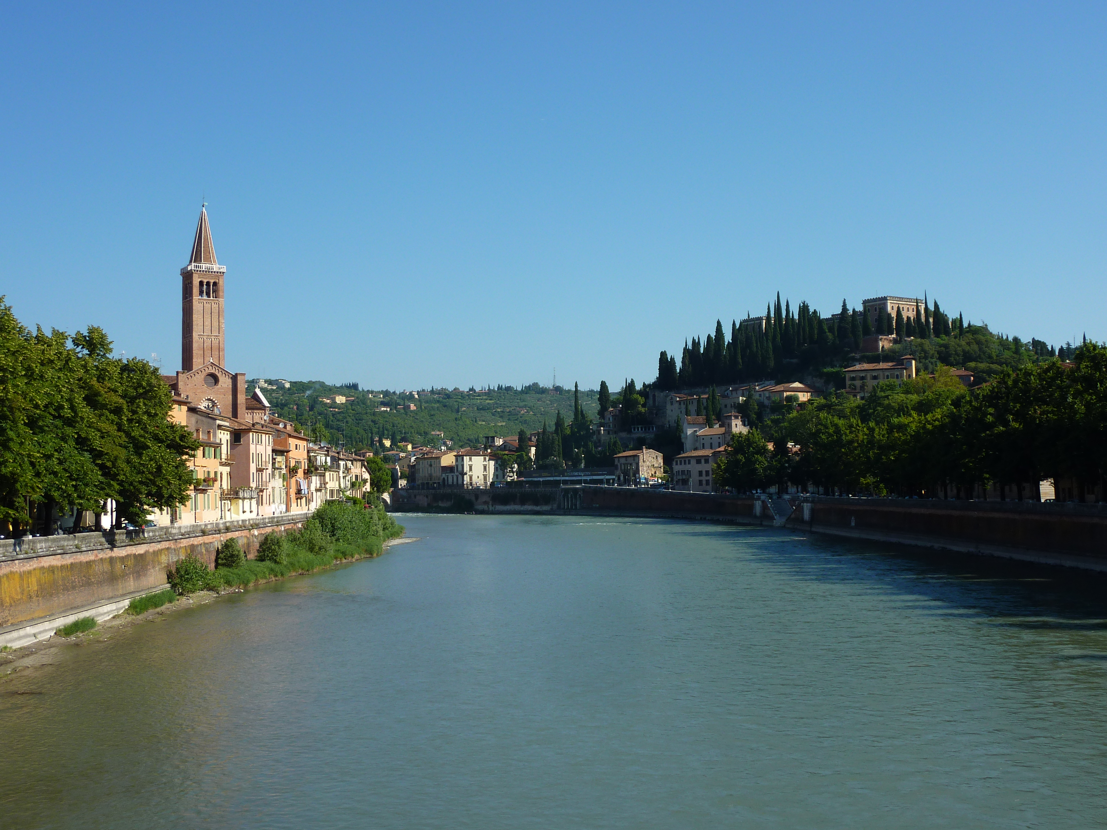 The Adige river in Verona, seen towards its source.